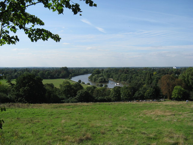 The River Thames - View from Richmond Hill View of the River Thames taken from the footpath beneath the Roebuck Public House situated on Richmond Hill.